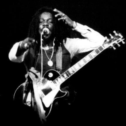 Reggae Singer Dennis Brown in Paris, France